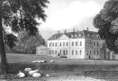 Beechwood Park in the 18th century (print)